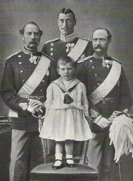 A very well-known picture in danish history books. The line to the throne after Christian IX is starting to be a little crowded. Christian IX, Prince Christian (X), Crown Prince Frederik (VIII) and the little Prince Frederik (IX) in 1903.